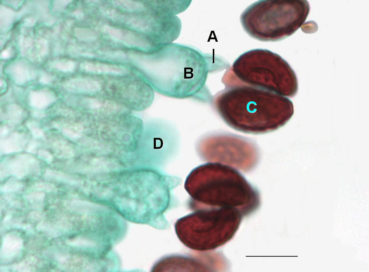 Light microscopy of Coprinus with the edge of the gills where basidium can be seen with basidiospores. A=Sterigma, B=Basidium, C=Basidiospore, D=Immature basidia. Scale bar = 0.01mm.